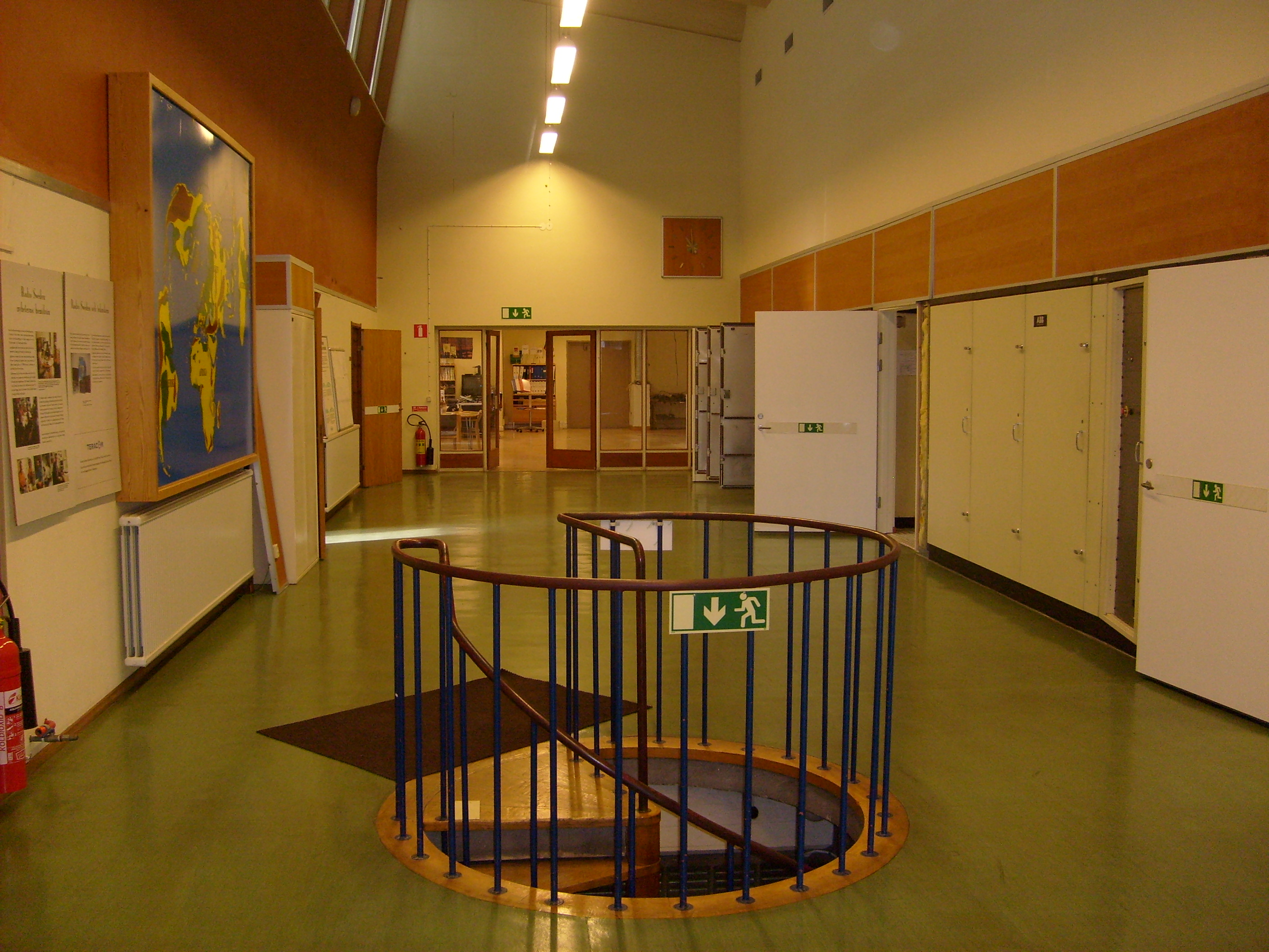 The shortwave transmitters at Hoerby shoertwave station in Hoerby, Sweden